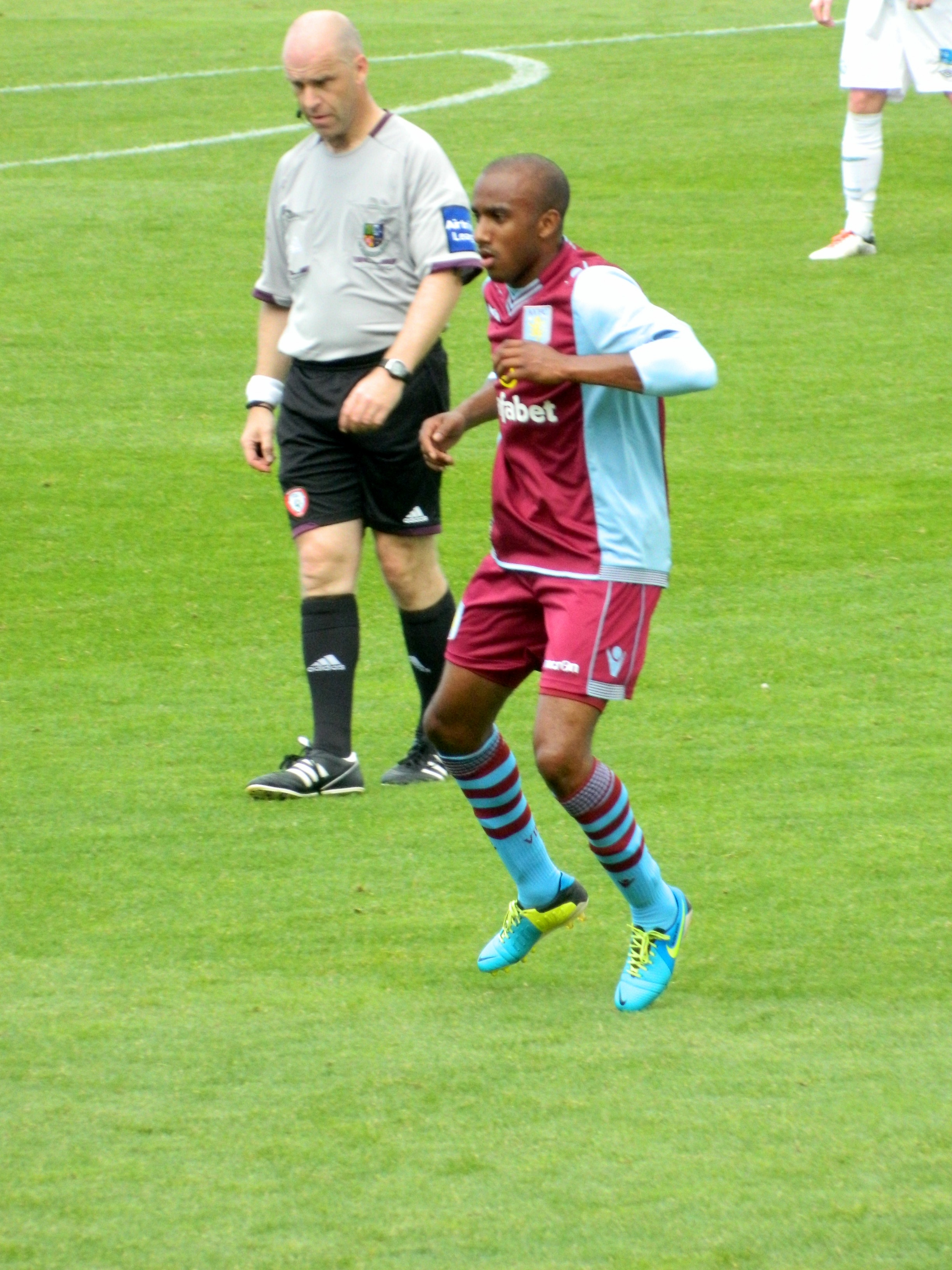 Fabian Delph playing for Aston Villa v Shamrock Rovers 04/08/2013